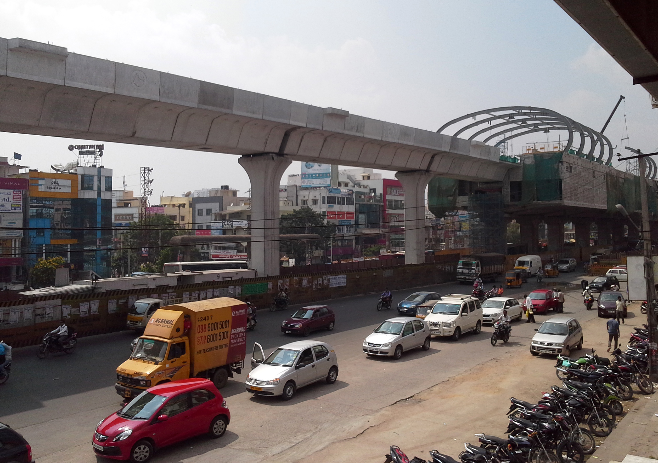 Hyderabad Metro at KPHB, Kukatpally